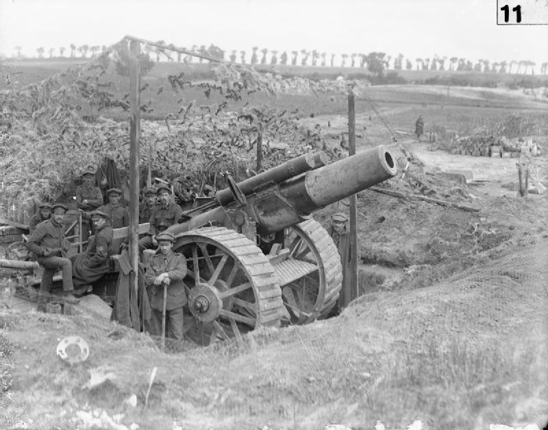 Photograph of British 8 inch Howitzer Mk V, a bored-out and shortened 6 inch naval gun, under camouflage netting near Carnoy, Battle of Albert, July 1916.